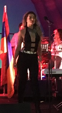 Iveta Mukuchyan Europe Day June 2 2018